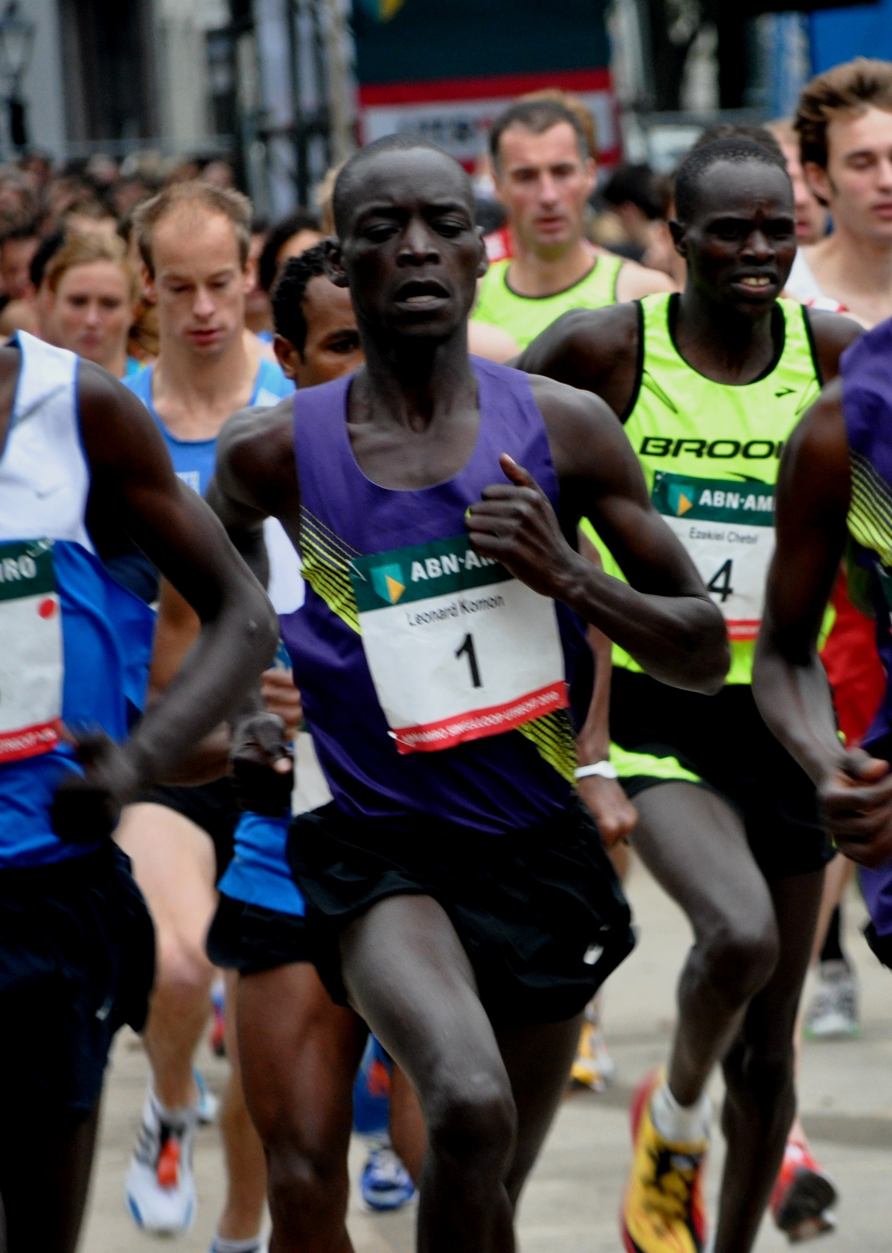 Start of the 2010 Utrecht Singelloop - Leonard Komon (1) went on to set a world record for the 10K.